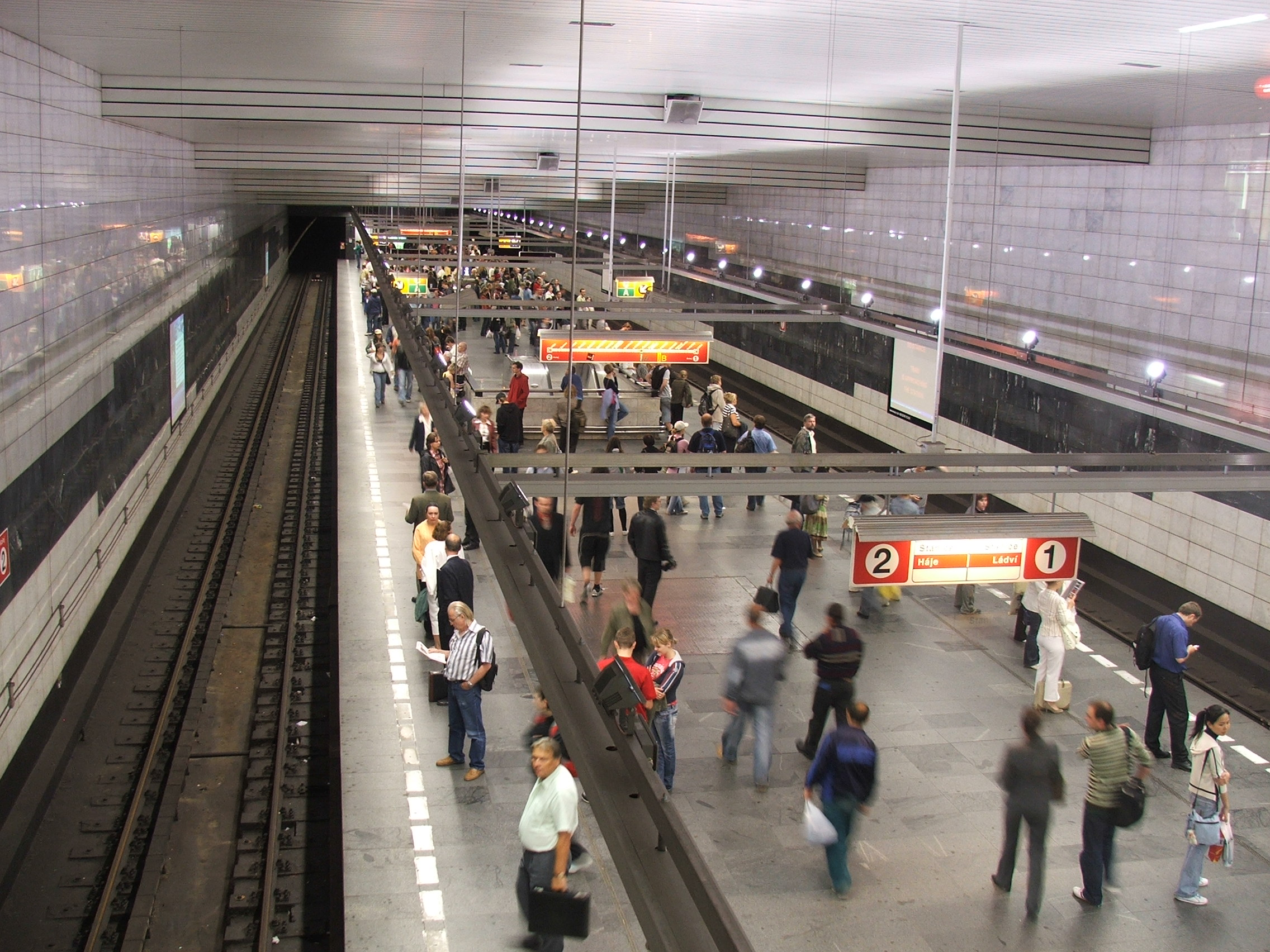 Prague, Metro station Muzeum - line C.